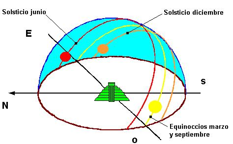 Kukulcán pyramid sun path